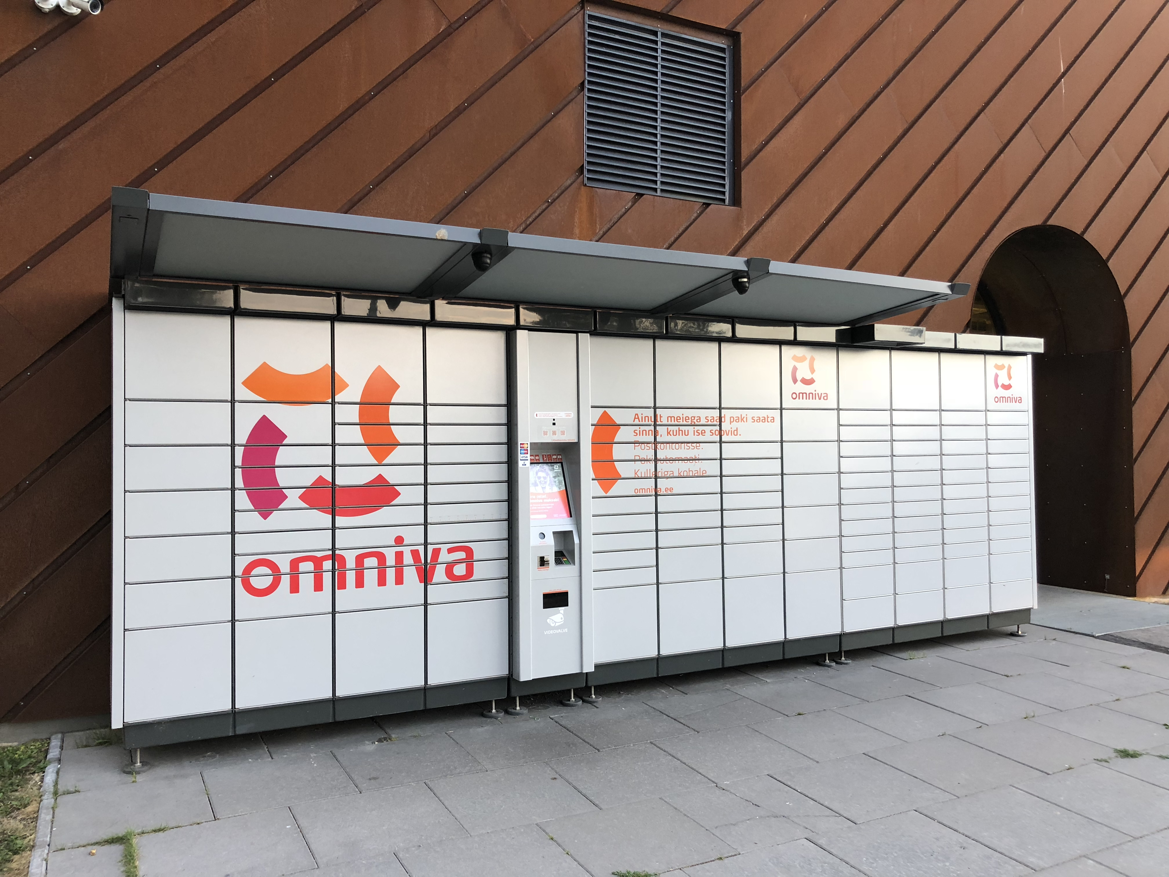 Omniva Parcel Lockers in Tallinn (Estonia)